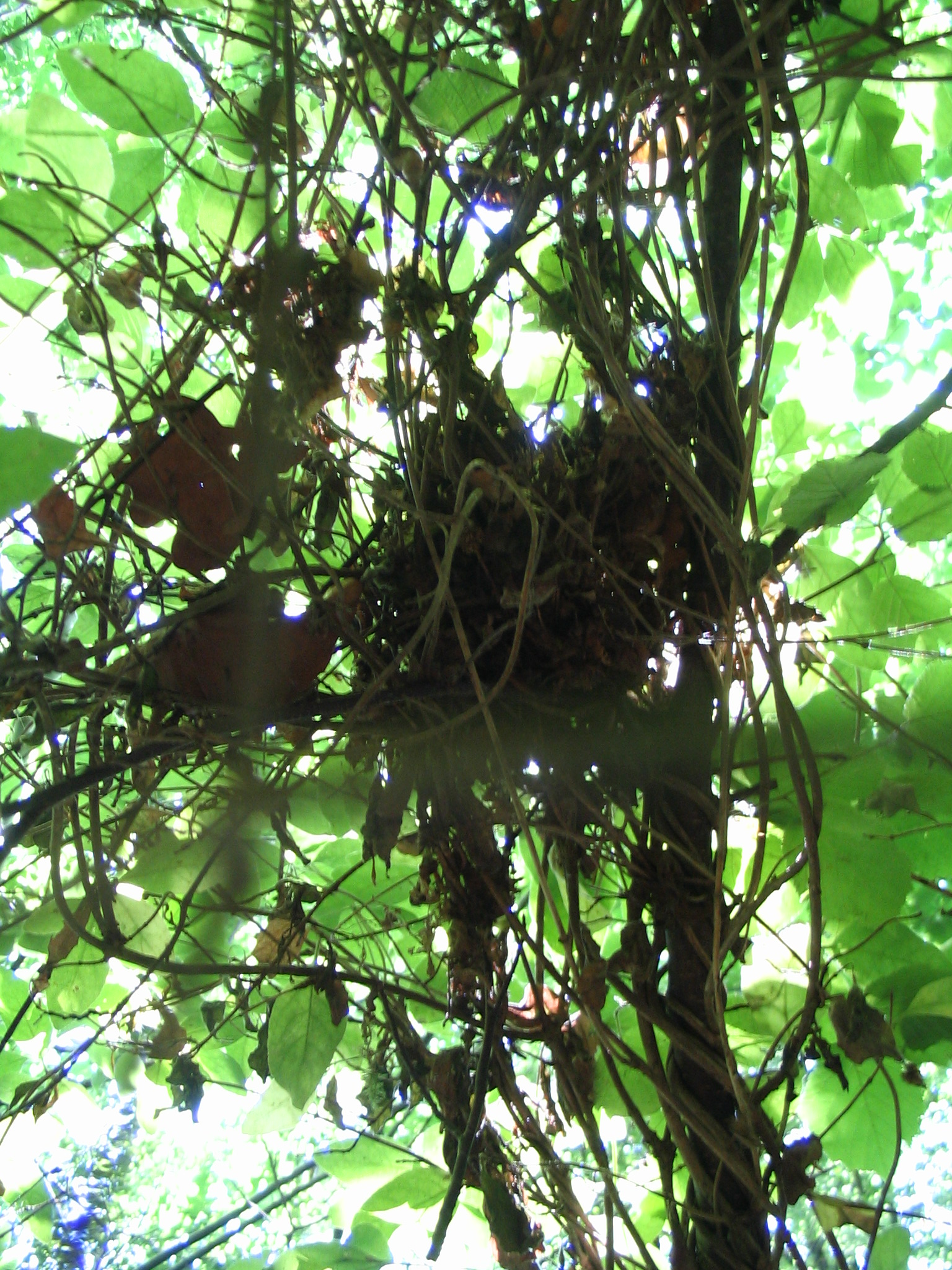 Nest of a common dormouse (Muscardinus avellanarius)in France.